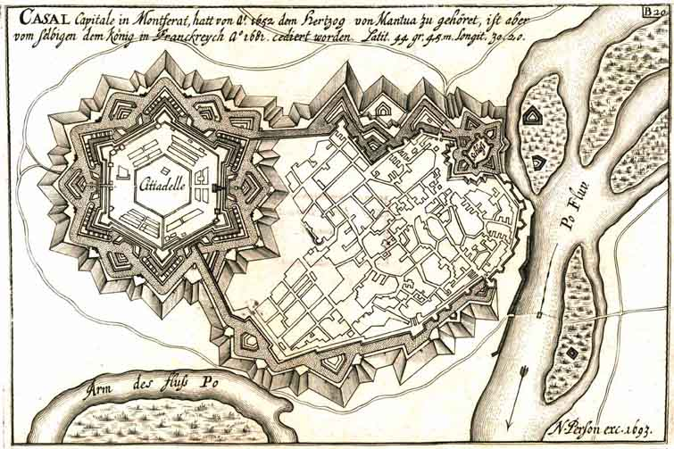 Plan of the fortified city of Casale Monferrato described by the source as 0406:15:018:005 1693 Casal Capitale in Montferrat hatt von Anno 1652 dem Herezog von Mantua zu gehöret, ist aber vom selbigen dem König i Franckreych Anno 1682 cediert worden.